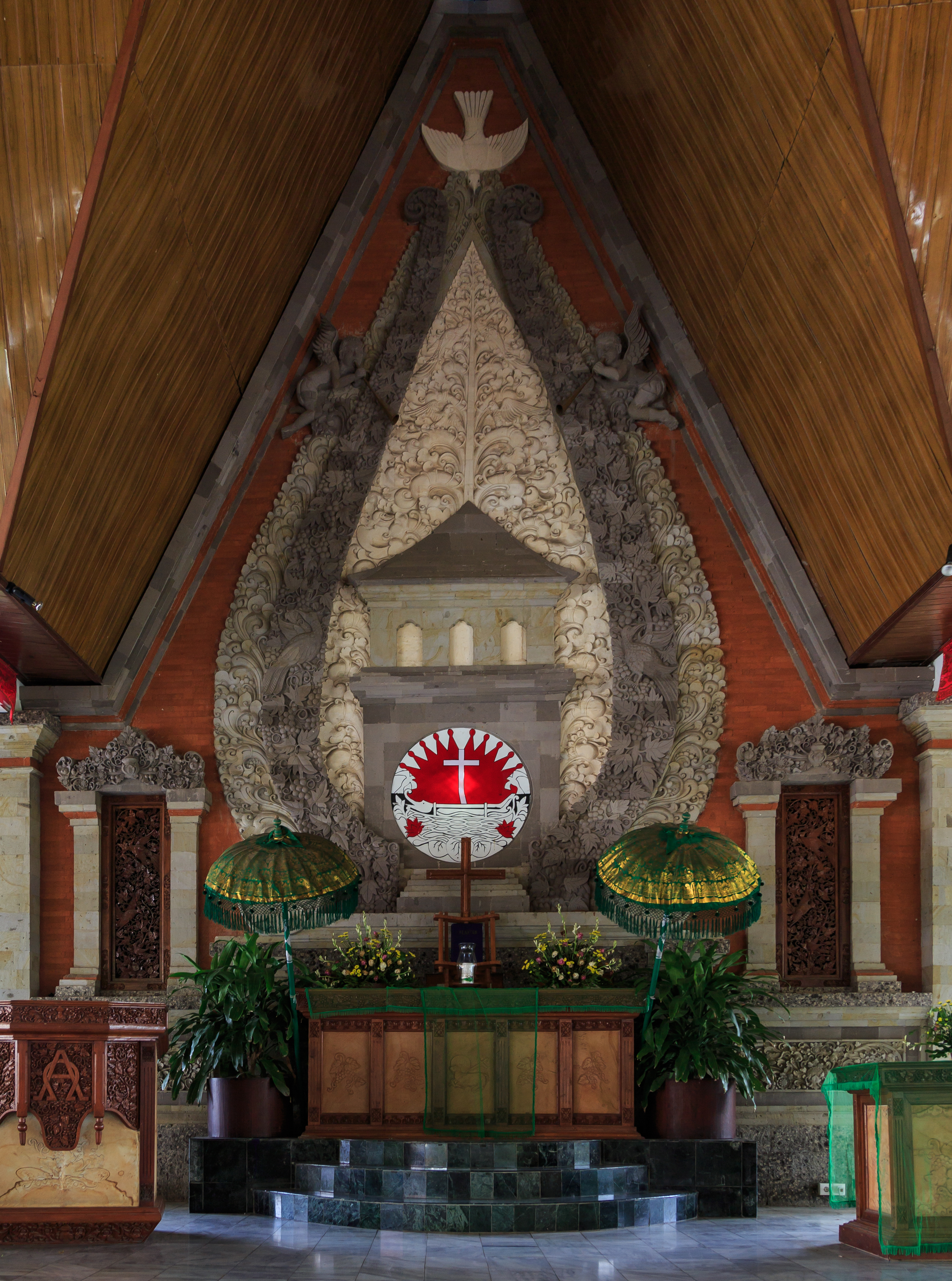 Kuta, Bali, Indonesia: Interior view of the Protestant Church "GKPB Jemaaat Bukit Dua" in the Puja Mandala Complex